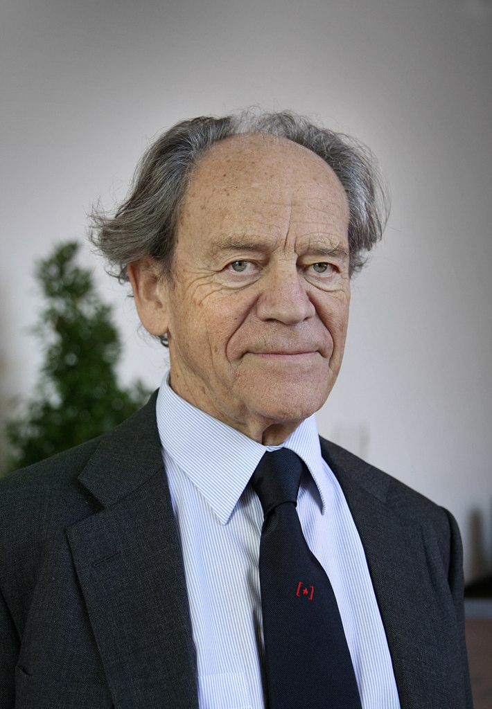 Swedish neurophysiologist Torsten Nils Wiesel at a conference in 2006. This event was part of the 2006 Festival della Scienza, held annually in Genoa, Italy.